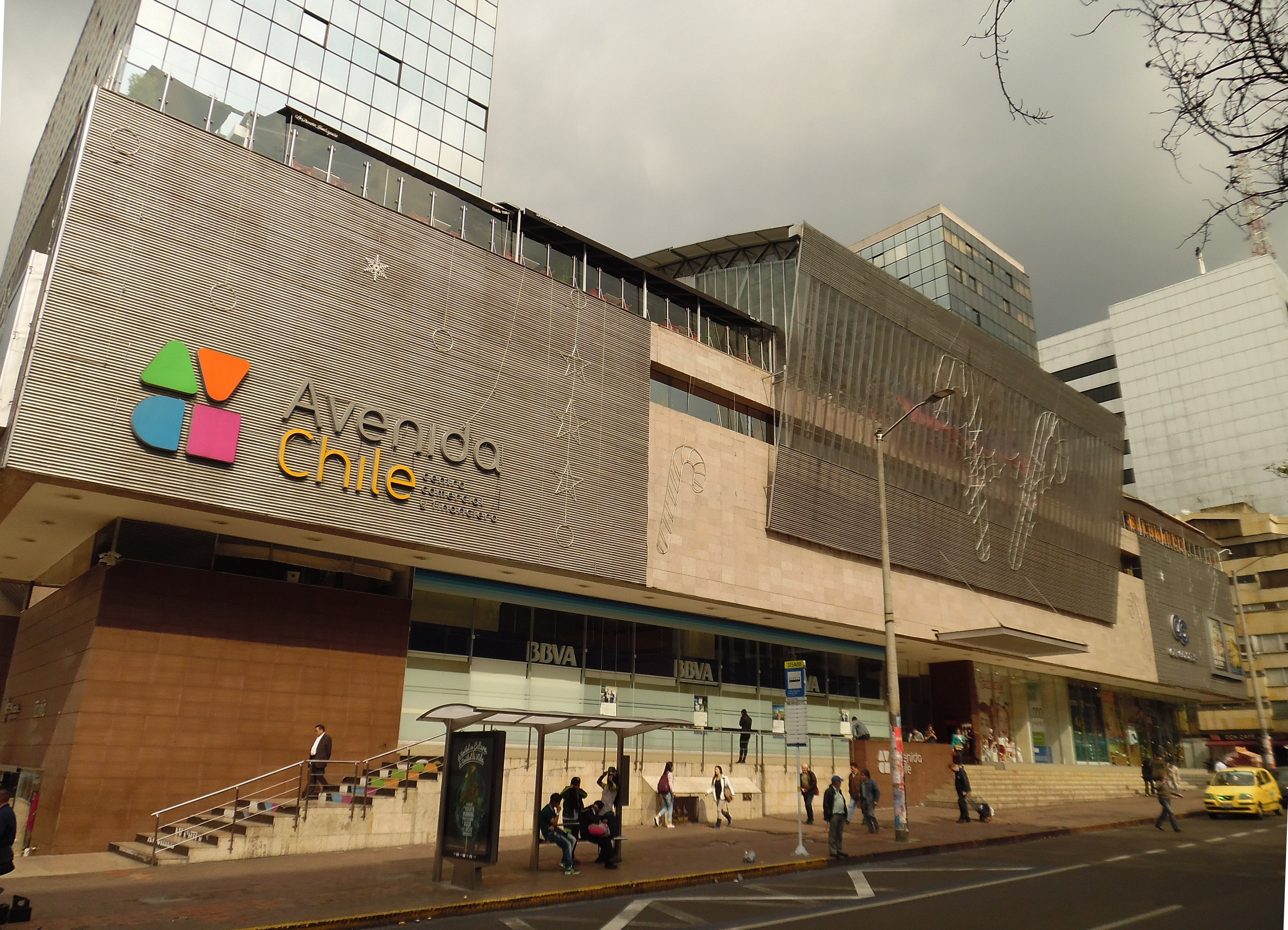 Bogotá